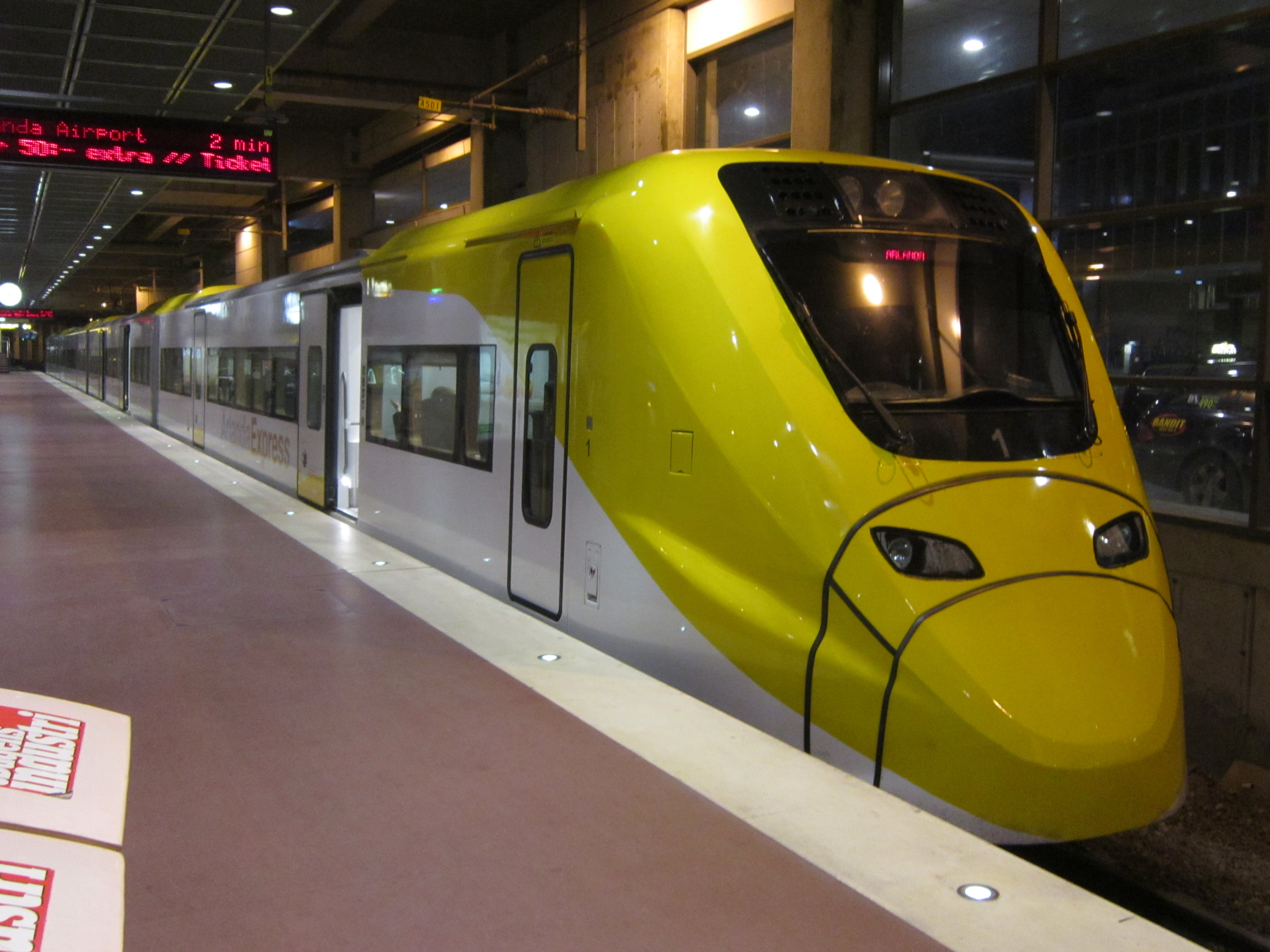 An Arlanda Express X3 train at Stockholm Central Station